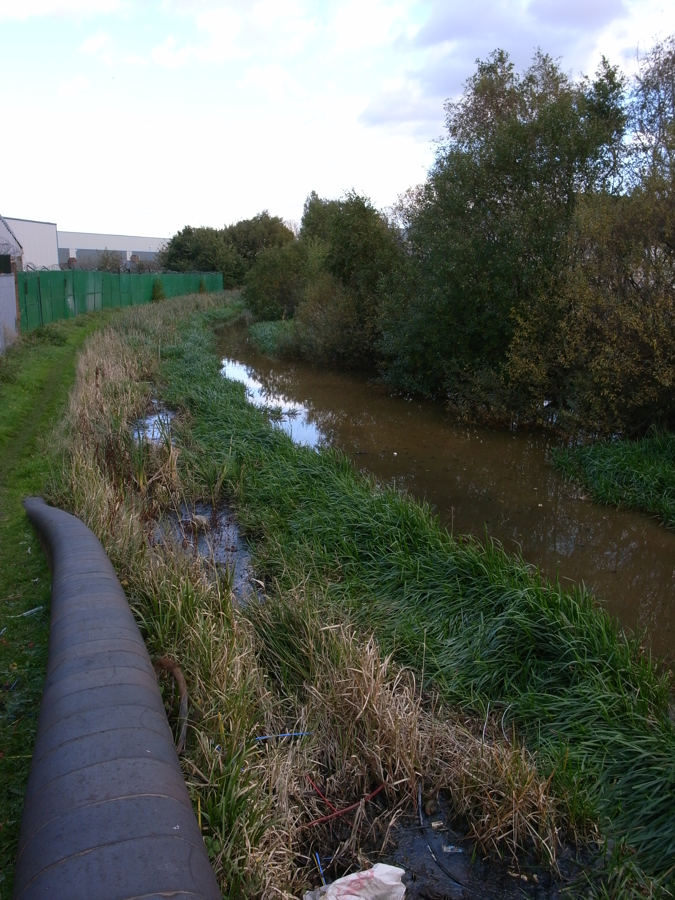 The barely navigable remains of the Wednesbury Old Canal in West Bromwich, England. It was part of the first section of the Birmingham Canal (first in the area) to open in 1869.